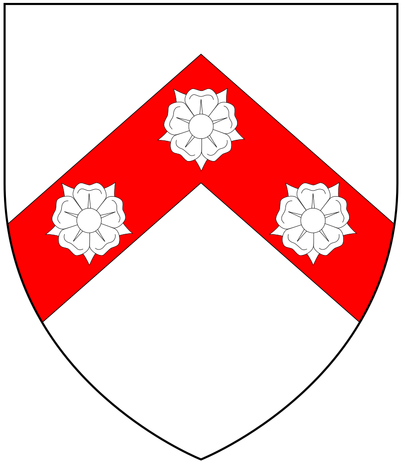 Arms of Gilbert of Compton in the parish of Marldon, Devon: Argent, on a chevron gules three roses of the field. These were the ancient arms of the family. Later Raleigh Gilbert was granted special arms of: Ermine, on a chevron sable three roses argent. (Source: Burke's Landed Gentry, 1937, p.886). The family's arms are very confused, for example as given in: Vivian, Lt.Col. J.L., (Ed.) The Visitations of the County of Devon: Comprising the Heralds' Visitations of 1531, 1564 & 1620, Exeter, 1895, p.405 gives the arms as: Or, on a chevron sable three roses of the field leaved proper a bordure gules. Pole, Sir William (d.1635), Collections Towards a Description of the County of Devon, Sir John-William de la Pole (ed.), London, 1791, p.484, gives the arms as: Argent, on a chevron sable three roses of the field. Argent, on a chevron gules three roses of the field. Gilbert: Argent, on a chevron gules three roses of the field. These are the ancient arms of the family, as evidenced on monuments in Marldon Church 1496 and 1530 and in Churston Ferrers Church c.1575 (Source: Burke's Landed Gentry, 1937, p.886). In the 1620 Heraldic Visitation of Devon by William Camden, Clarenceux King of Arms, the following arms were allowed to Raleigh Gilbert (1584-1634) of Compton: Ermine, on a chevron sable three roses argent. (Source: Burke's Landed Gentry, 1937, p.886). The family's arms are very confused, for example as given in Vivian, p.405: Or, on a chevron sable three roses of the field leaved proper a bordure gules. Pole, p.484, gives: Argent, on a chevron sable three roses of the field. Family resident at: Compton, Marldon; Sandridge, Stoke Gabriel; Greenway, Churston Ferrers; Bovey Tracey; (Bodmin Priory, Cornwall)